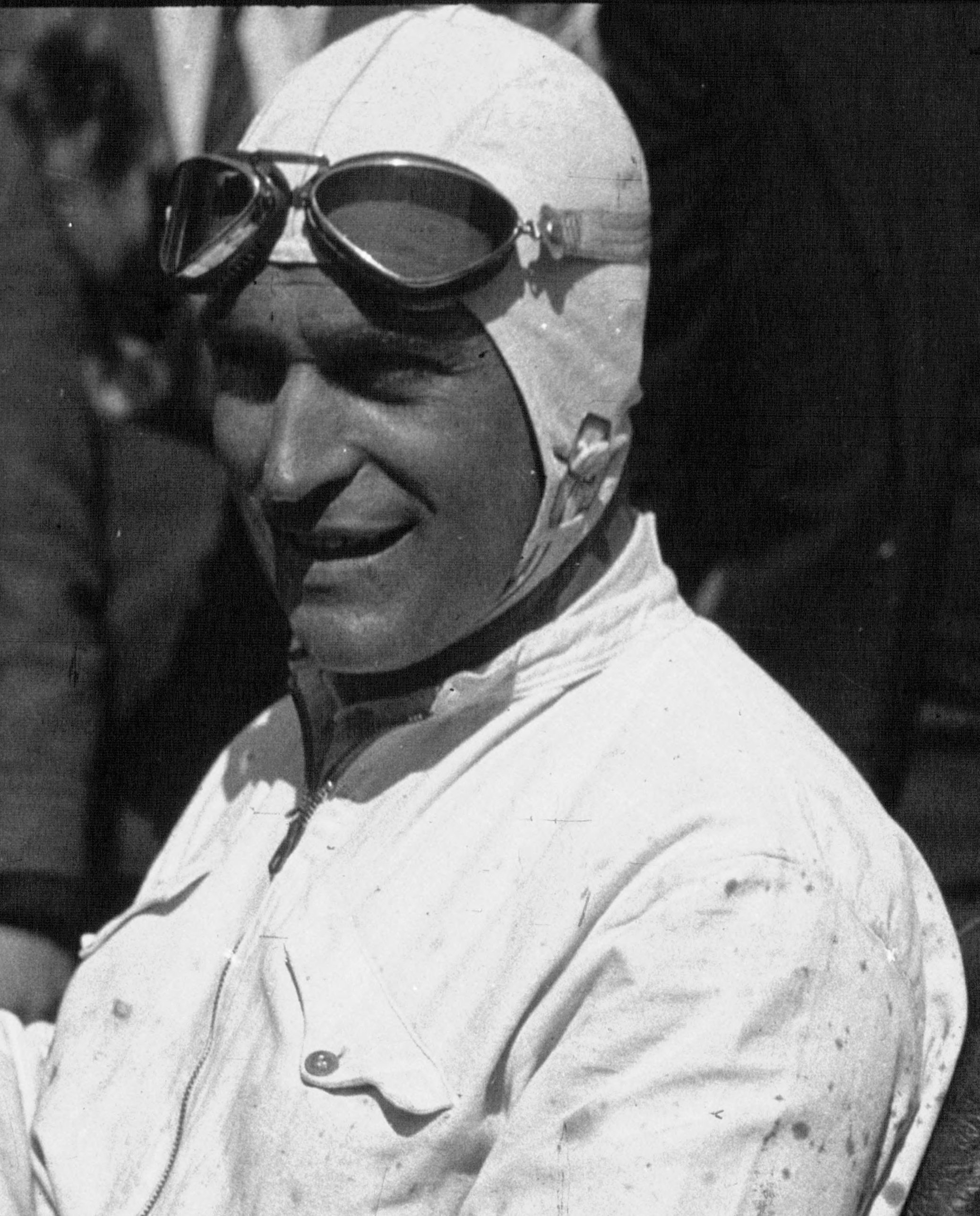 Luigi Fagioli in his Maserati at the 1932 Targa Florio.